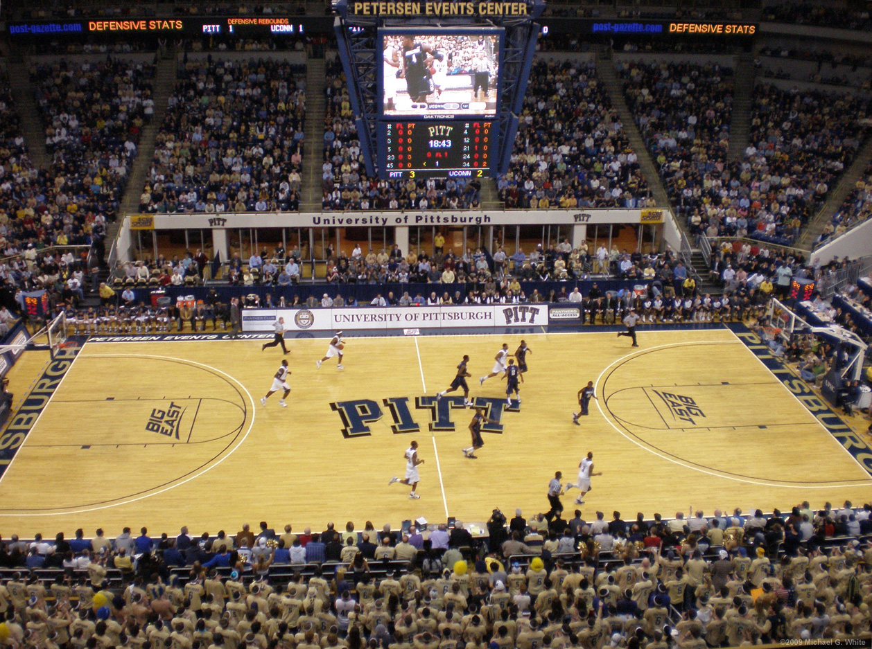 The University of Pittsburgh Panthers basketball team, then ranked #3, in a game against the #1 ranked UConn Huskies at the Petersen Event's Center on March 7th, 2009. Pitt won the game, nationally broadcast on CBS, 70-60.